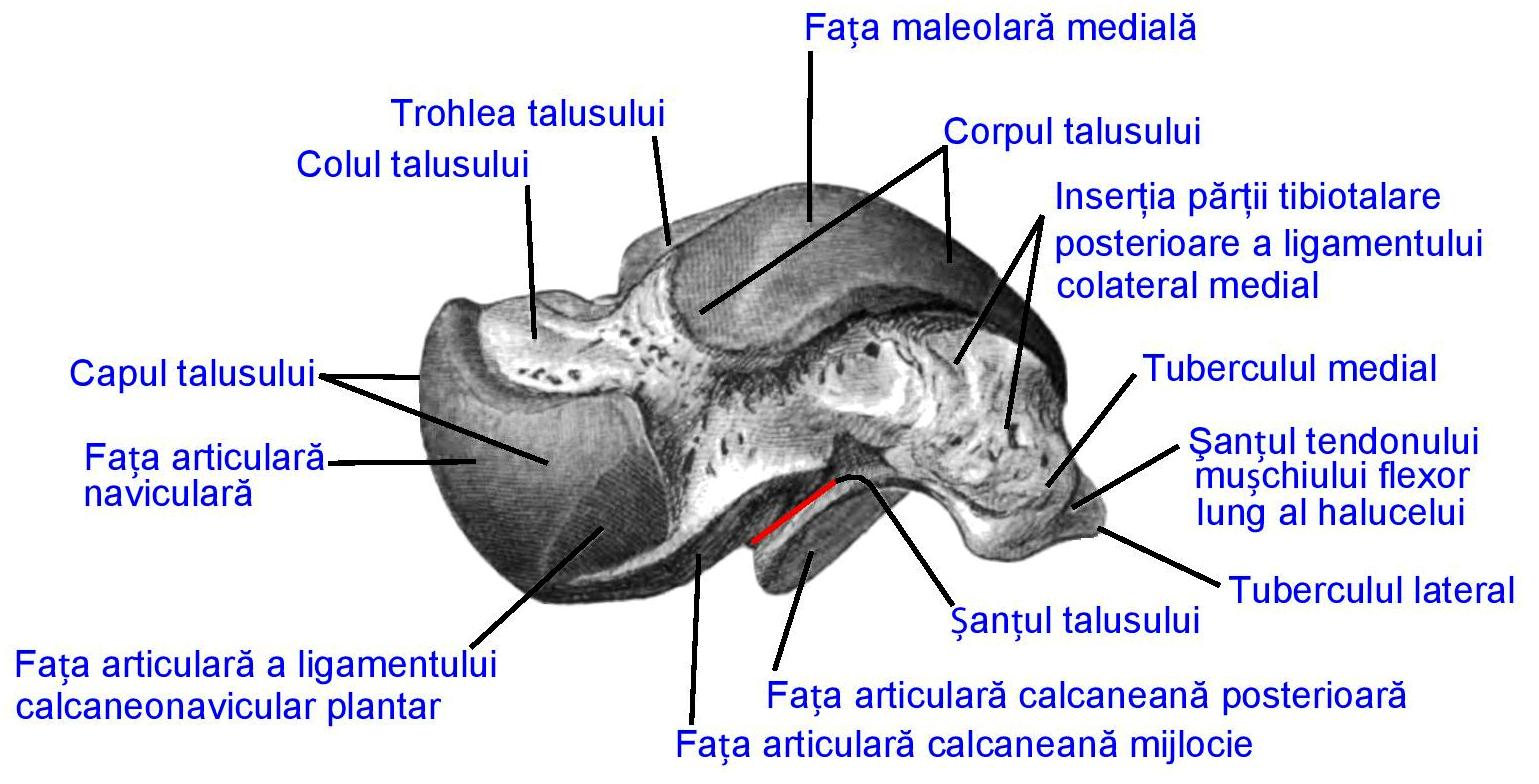 Talus, medial face